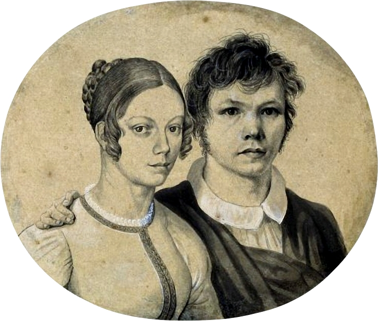 Self-portrait of Karl Friedrich Schinkel with his wife Susanne.